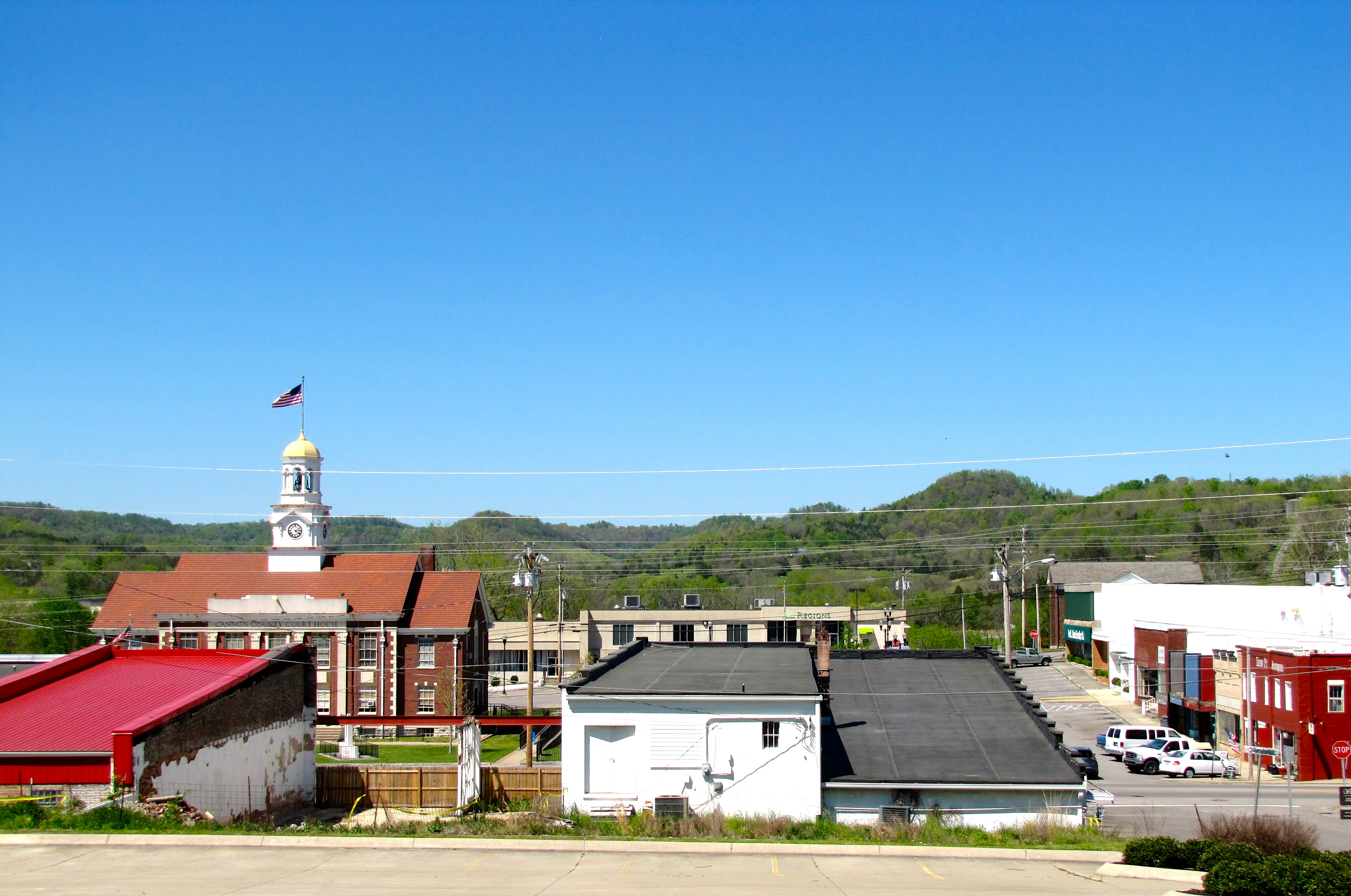 The courthouse square in Woodbury, Tennessee, United States. Cannon County Courthouse on the left.